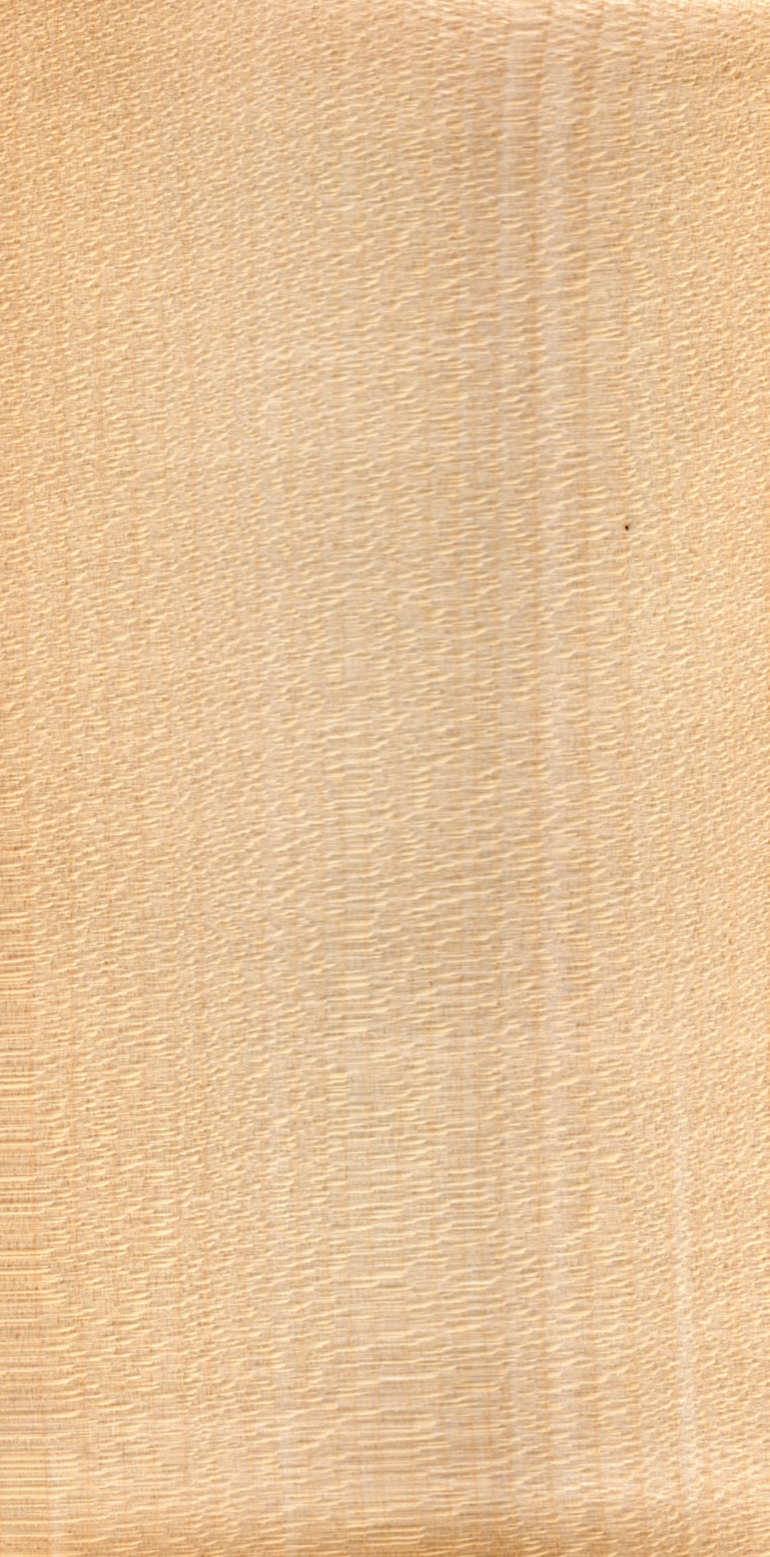 Wood of 'Acer pseudoplatanus